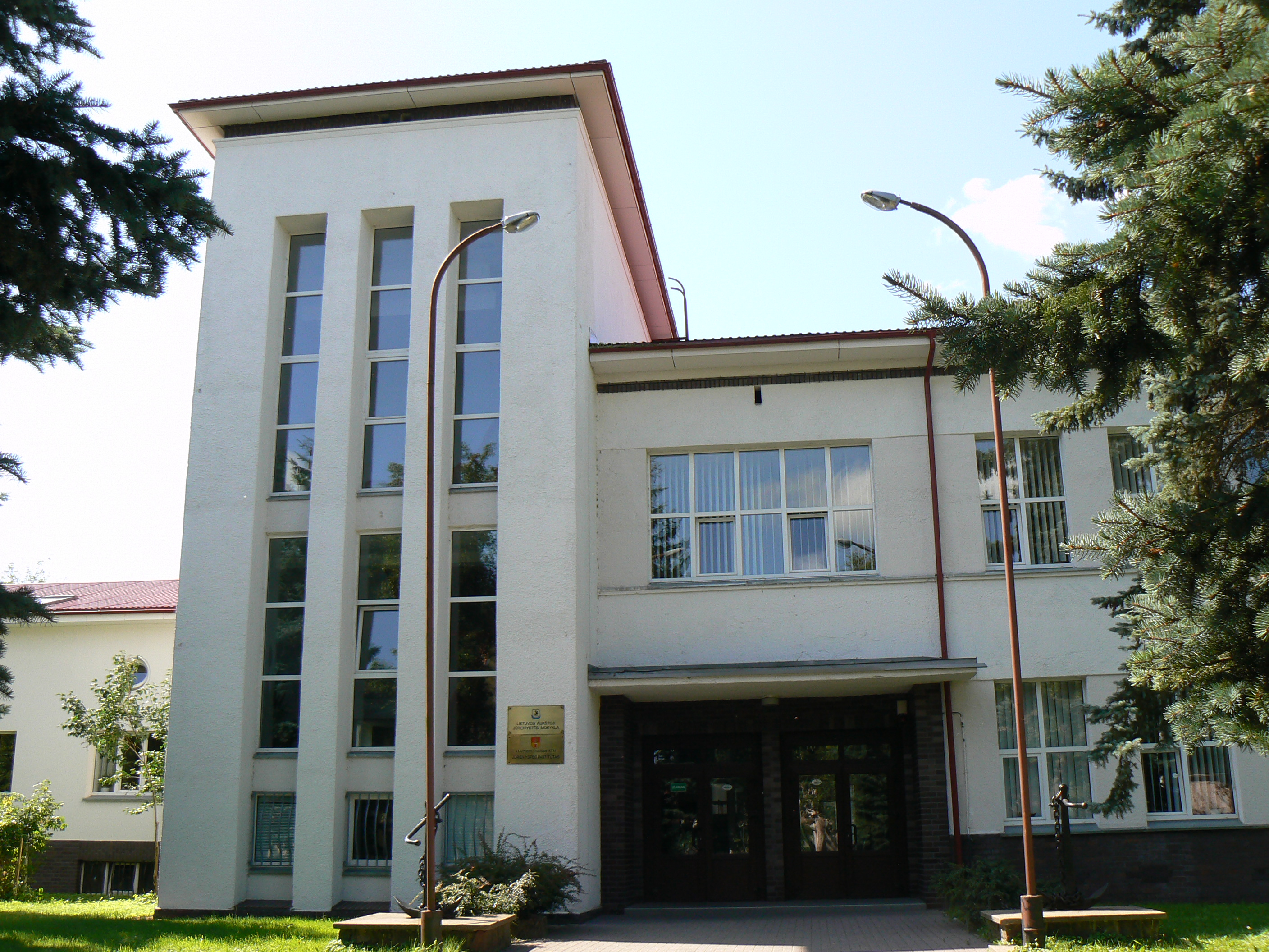 Lithuanian Maritime Academy in Klaipėda